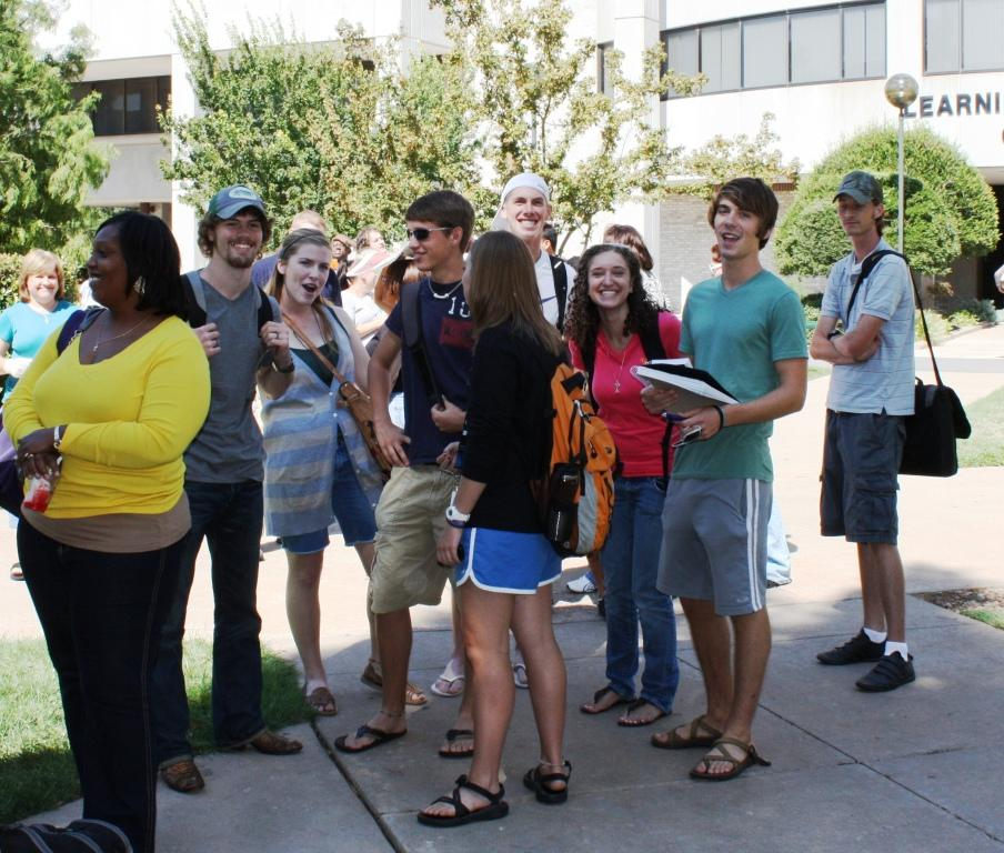 OSU-OKC's fall 2010 Howdy Week.